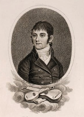 Portrait of Bartolomeo Bortolazzi, reproduced from an engraving by Scheffner.